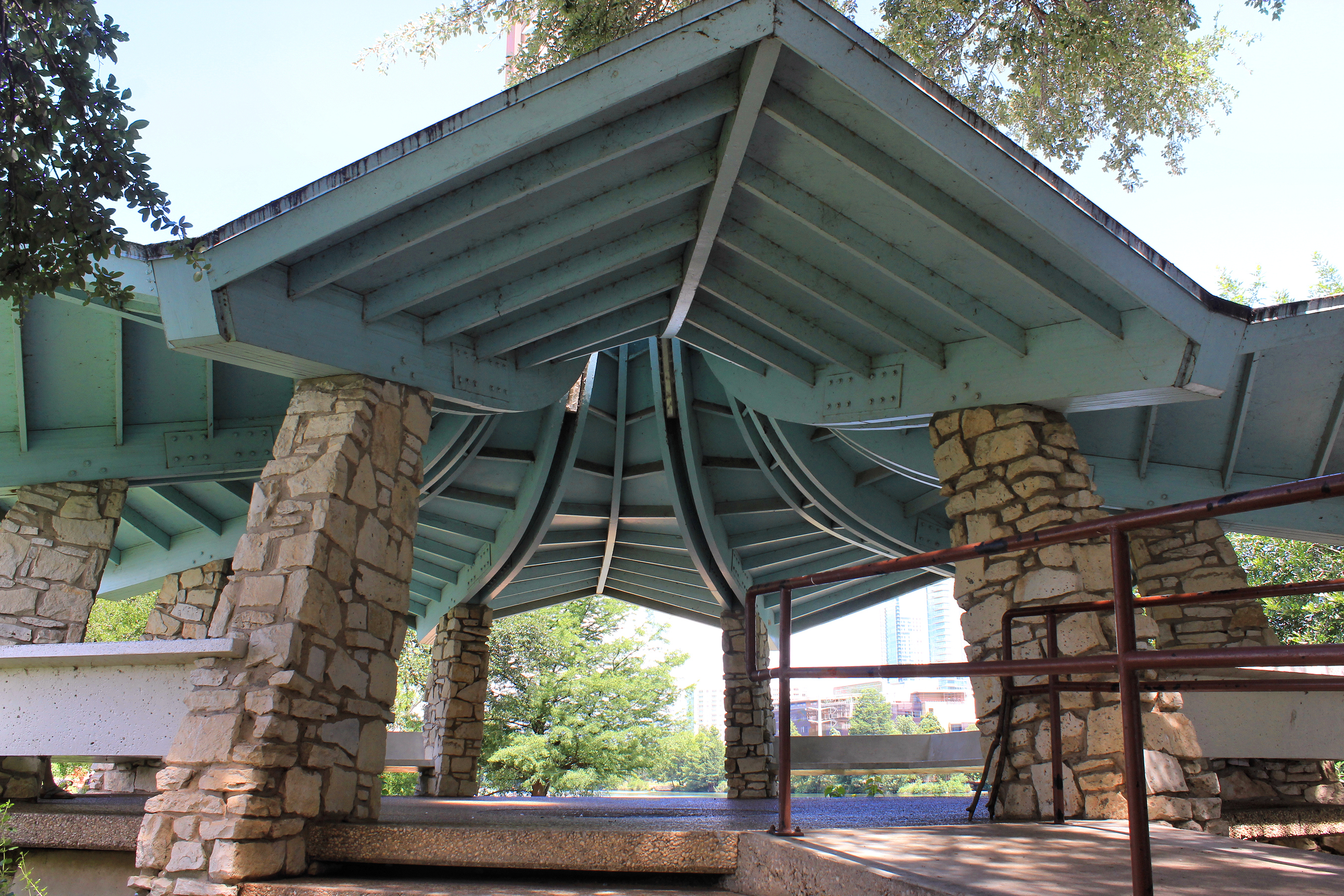 The interior of the Fannie Davis Town Lake Gazebo on the Ann and Roy Butler Hike-and-Bike Trail. A commemorative plaque by the gazebo reads:"Fannie Davis Town Lake Gazebo A gift to the City of Austin from the Austin, Texas Chapter National Association of Women in Construction A tribute to the construction industry Built 1969J. Sterry Nill, Jr. ArchitectAnken Const. Co. ContractorRe-dedicated July 5, 1984 in honor of charter member "Miss Fannie" Davis for her lifelong support of our industry"